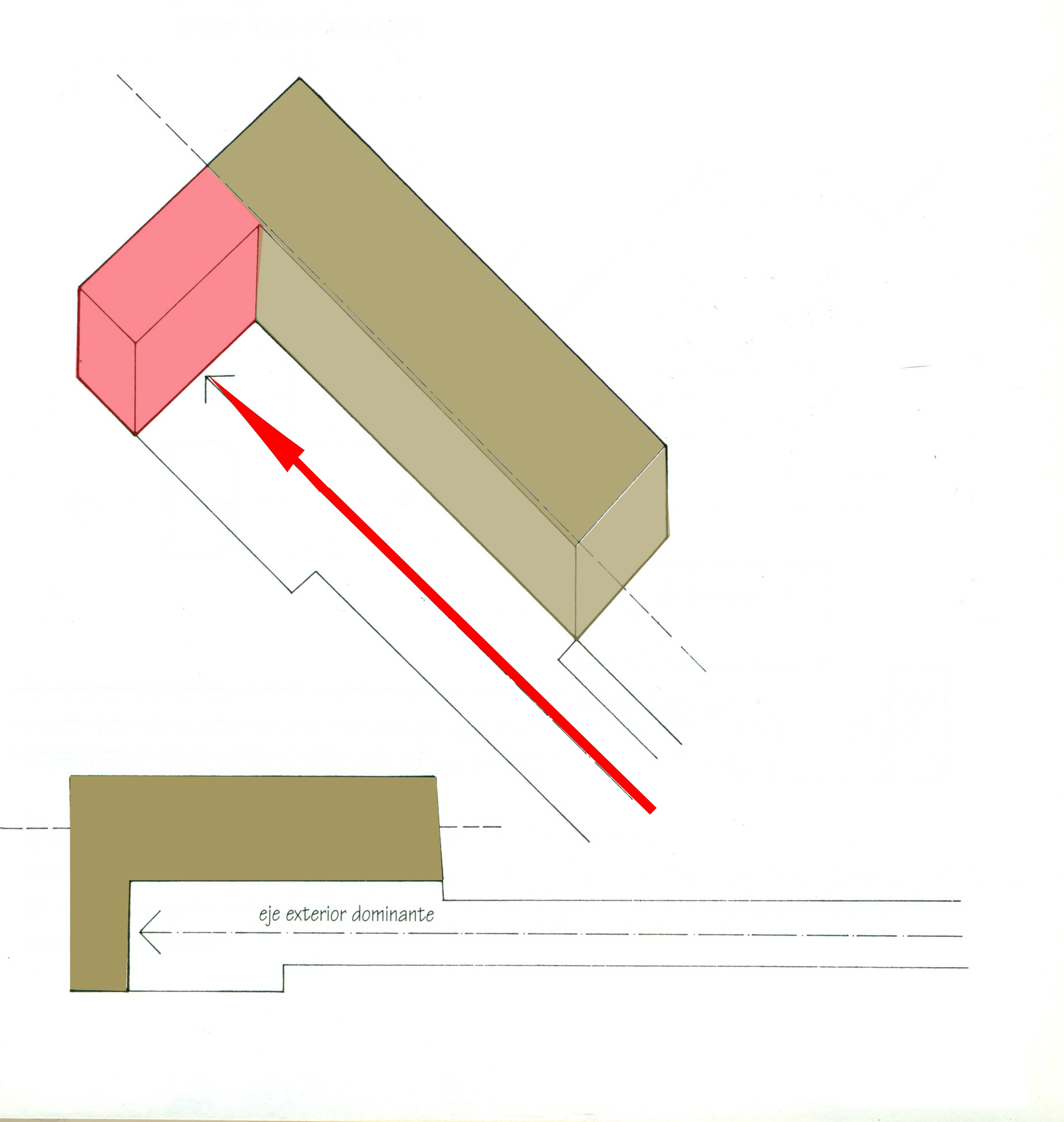 Configuracion generica